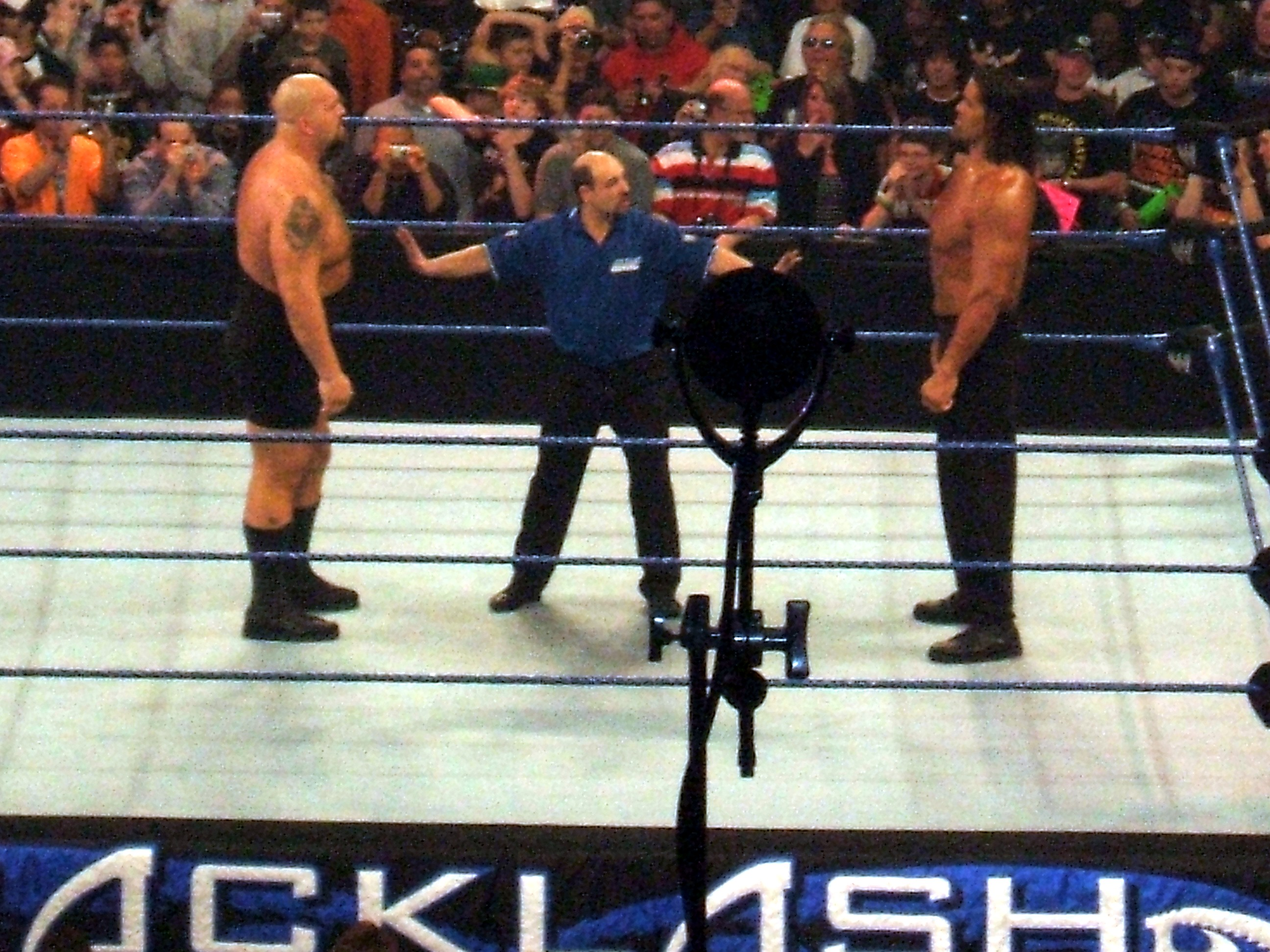 The Big Show and The Great Khali stare each other down. Shot taken with Kodak FinePix A500 Camera at the 1st Mariner Arena on April 27th, 2008.